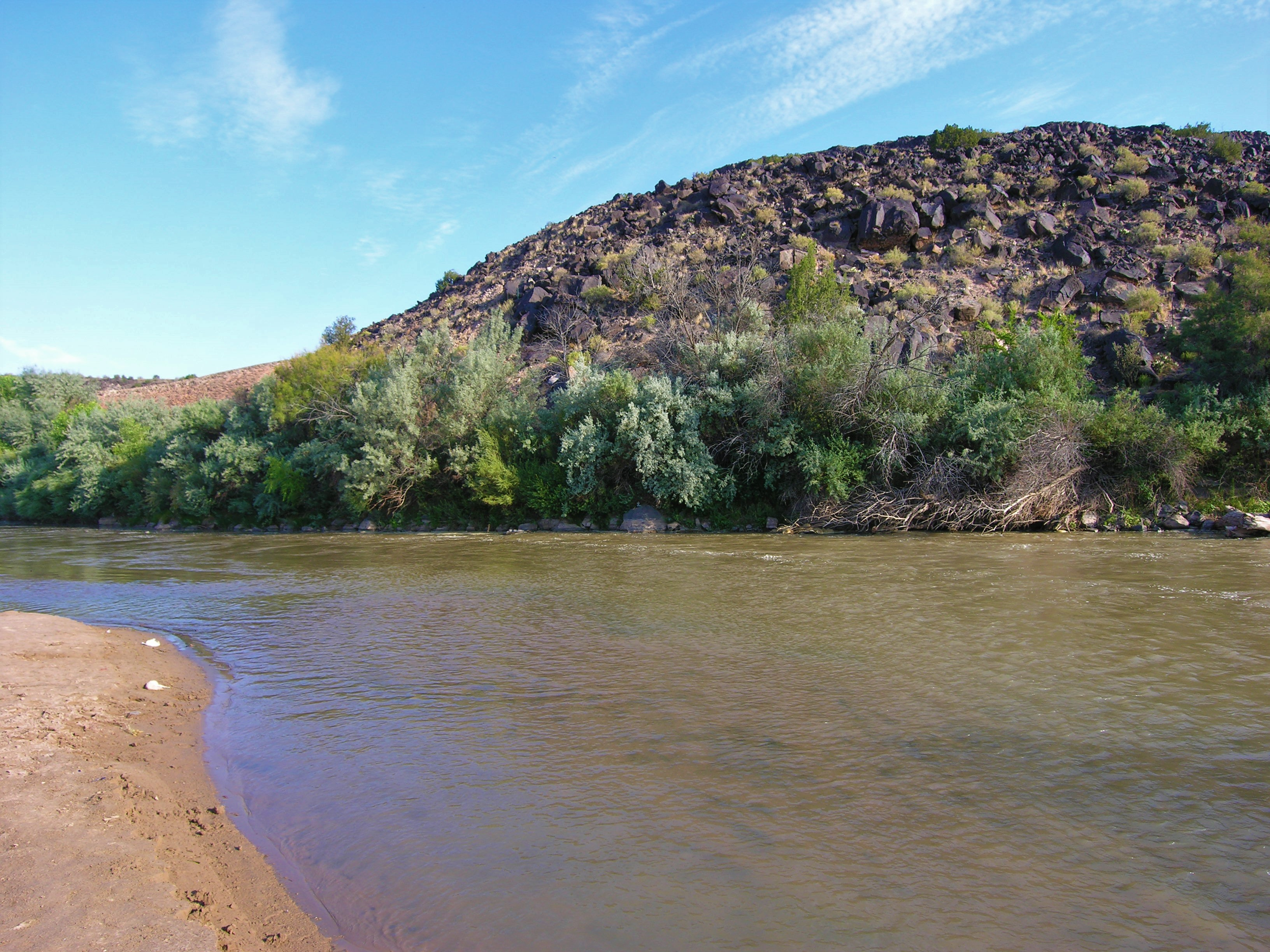 Rio Grande River 100 yards below Alamagordo Diversion north of Albuquerque, New Mexico